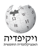 Hebrew Wikipedia logo